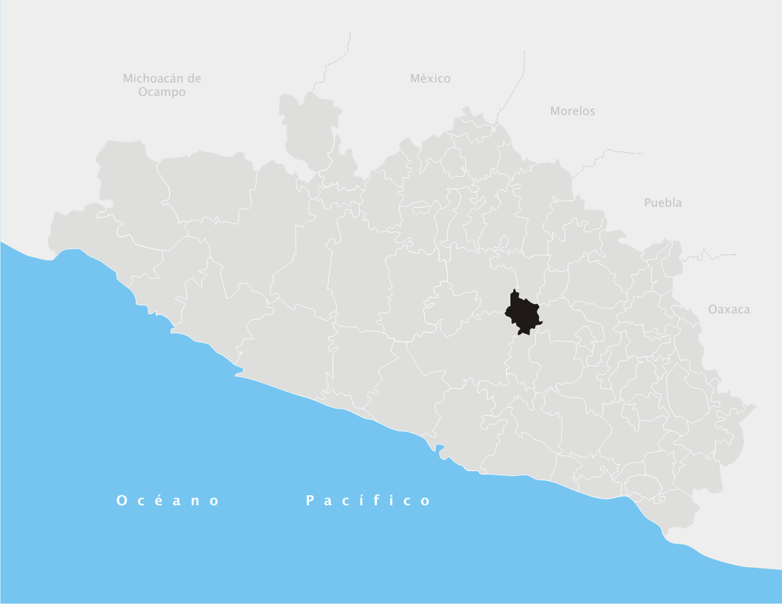 Locator map of the municipality of Tixtla de Guerrero, in Guerrero state, southwestern Mexico. Tixtla is the town seat of Tixtla de Guerrero (municipality).